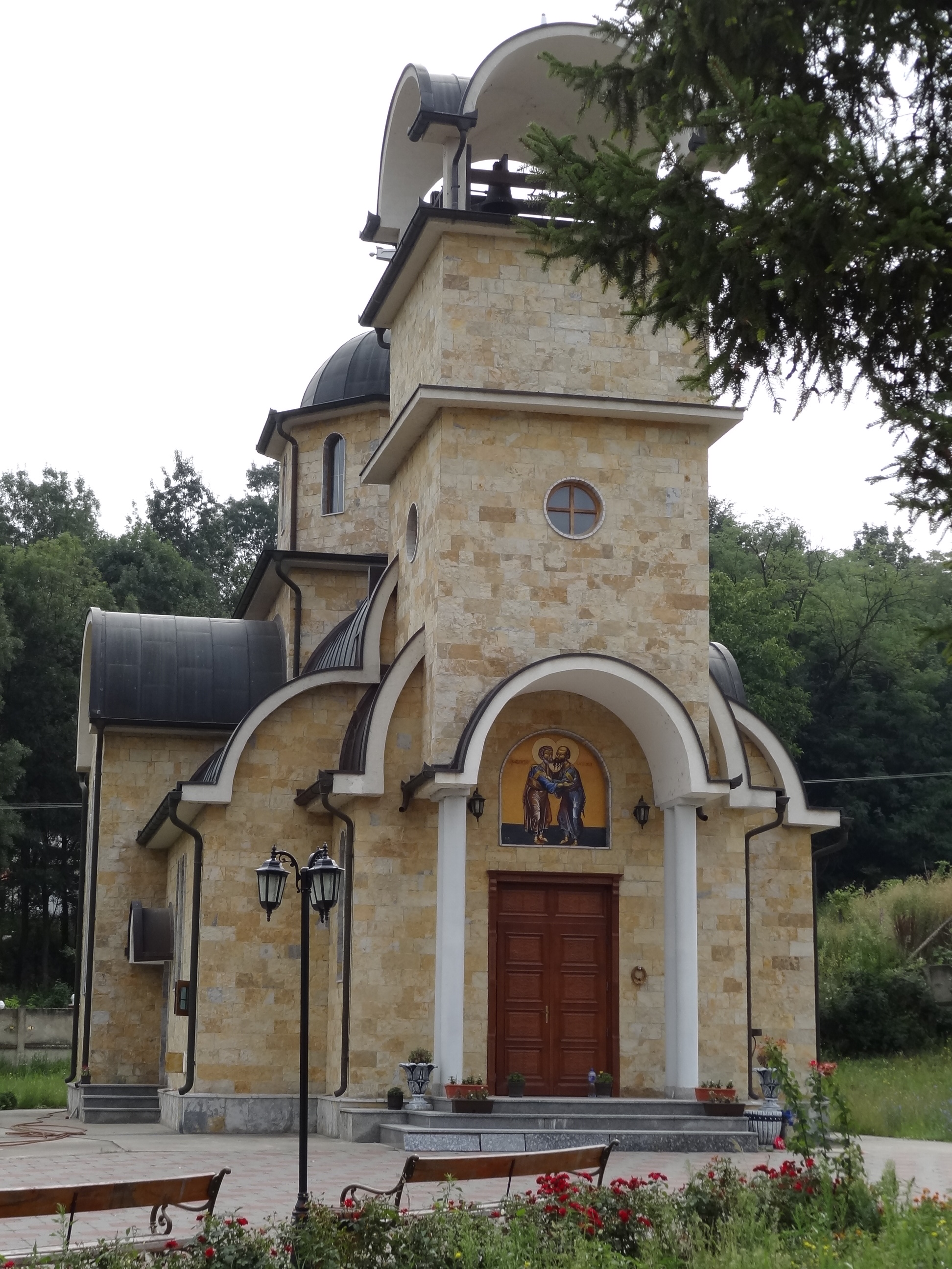 Church Apostol Petra and Pavle (Vitezevo, Serbia)